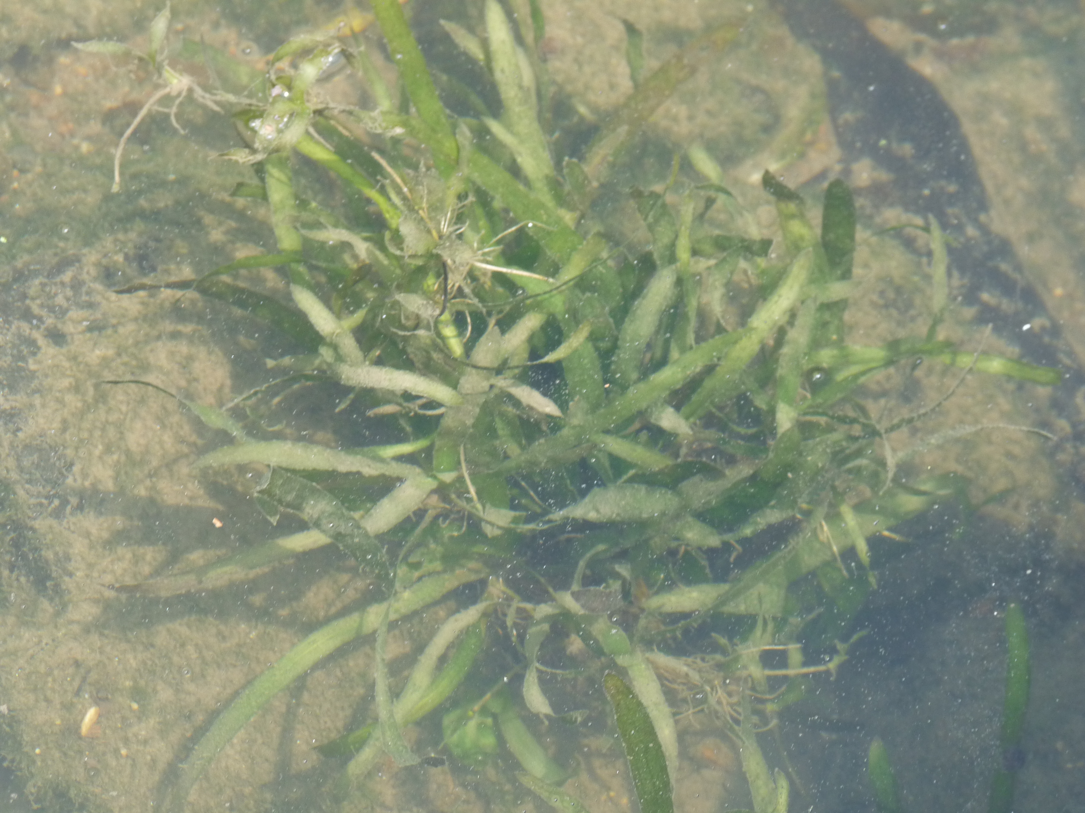 Vallisneria denseserrulata